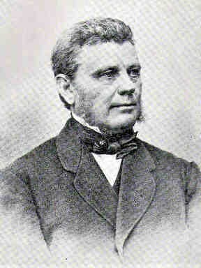 August Villads Bech (1815-1877), Danish landowner